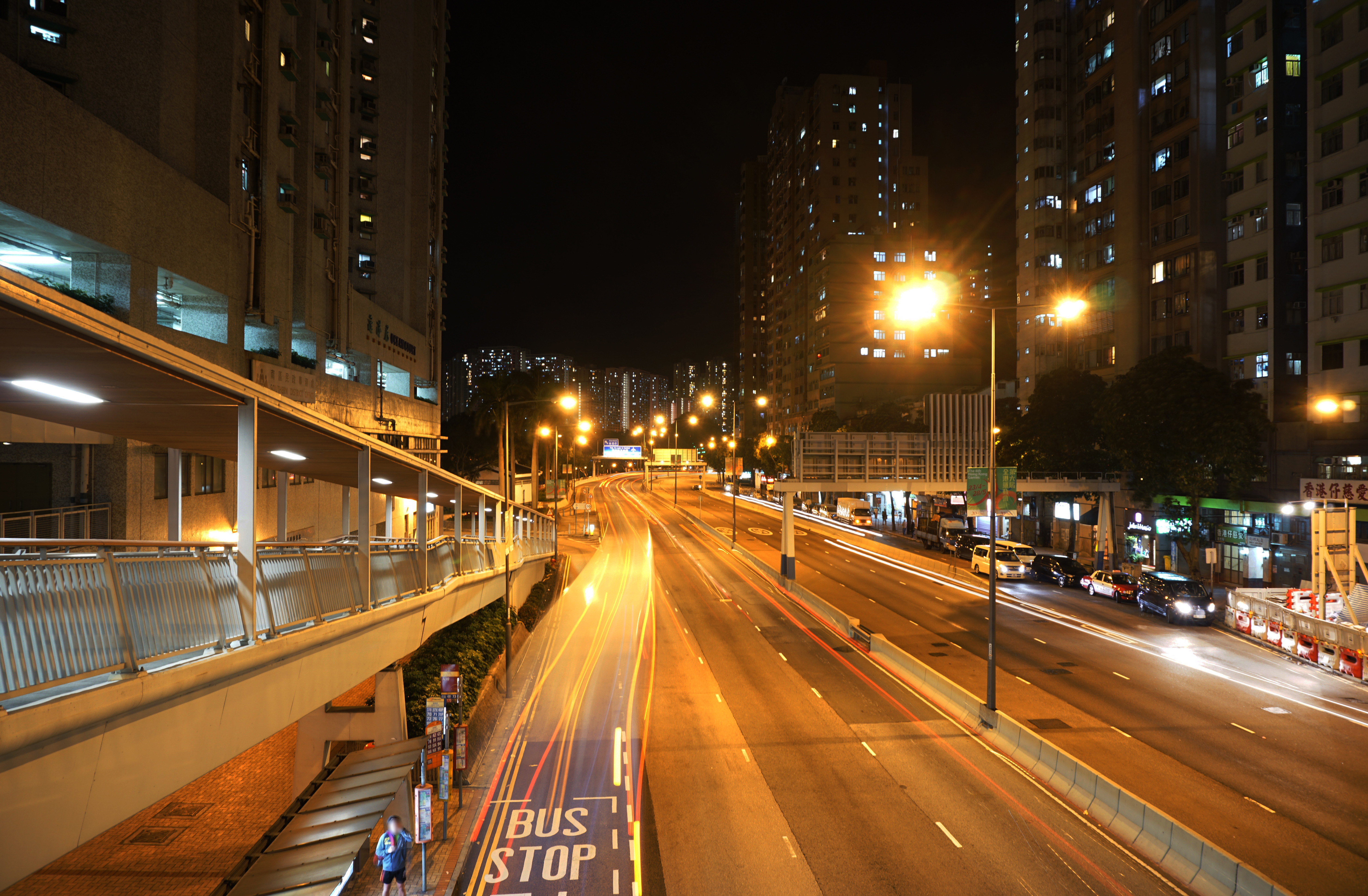 Praya Road in Aberdeen, Hong Kong.